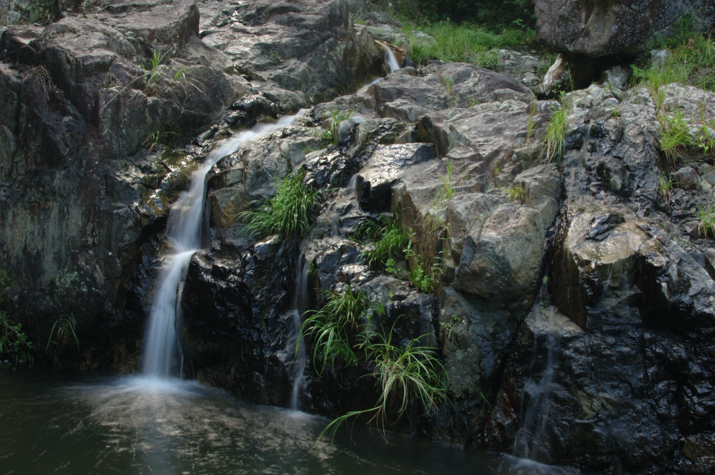 Otaki waterfall in Fukushoji Buddhist temple in Bizen, Okayama, Japan